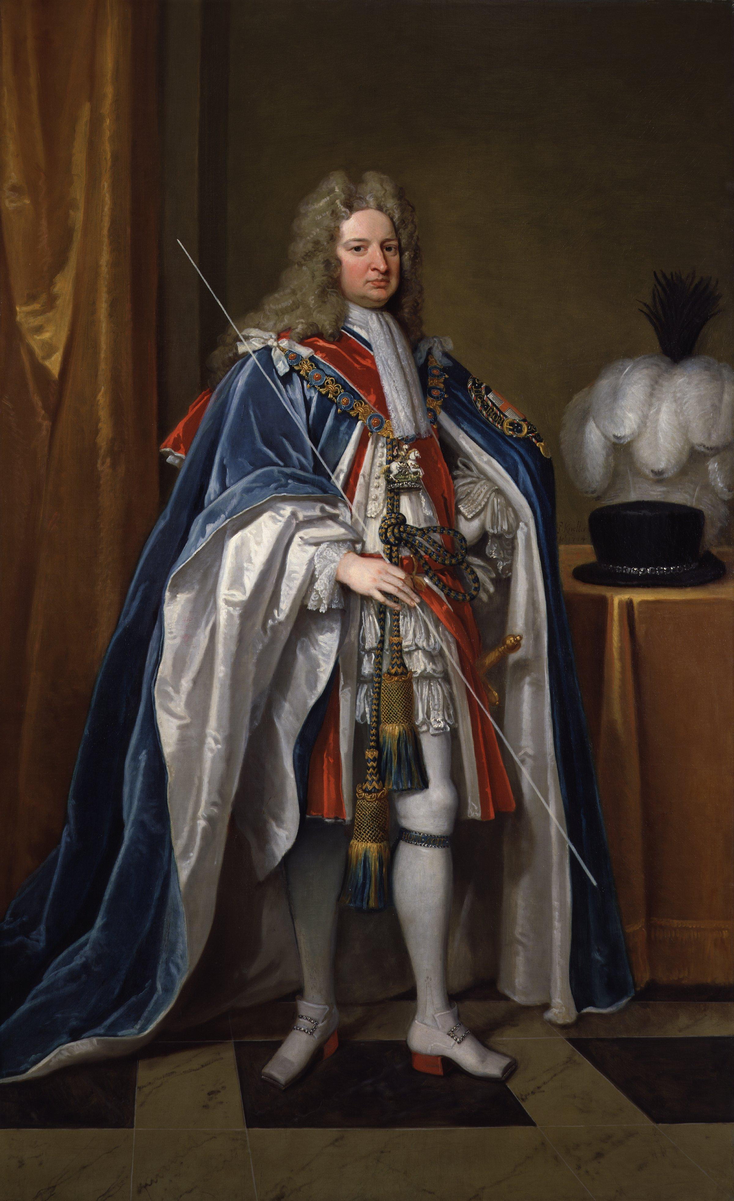 All images in this batch have been confirmed as author died before 1939 according to the official death date listed by the NPG.